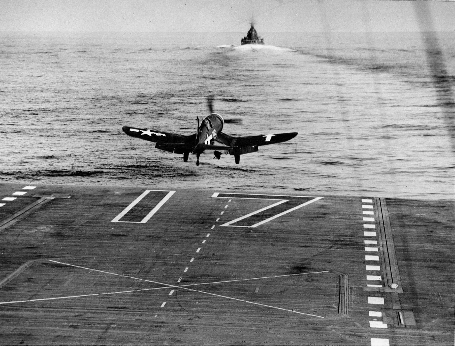 A U.S. Navy Vought F4U-1D Corsair of Fighting Squadron (VF) 84 "Wolf Gang" launches from the deck of the aircraft carrier USS Bunker Hill (CV-17) during operations supporting the invasion of Iwo Jima on 19 February 1945.